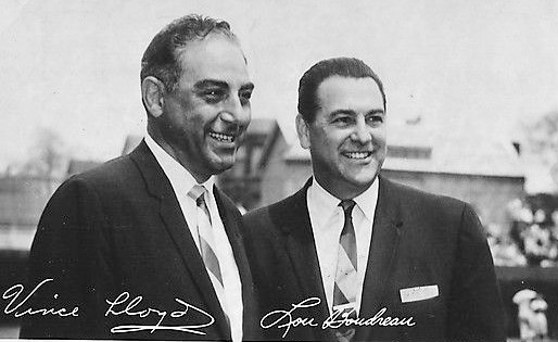 Postcard photo of Vince Lloyd and Lou Boudreau as the broadcast team for Chicago Cubs' games for WGN Radio. This card was sent to acknowledge mail and has facsimile signatures.